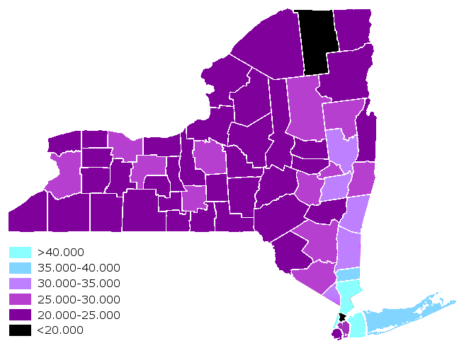 Annual per capita income in NY by state, 2010, in US$; data